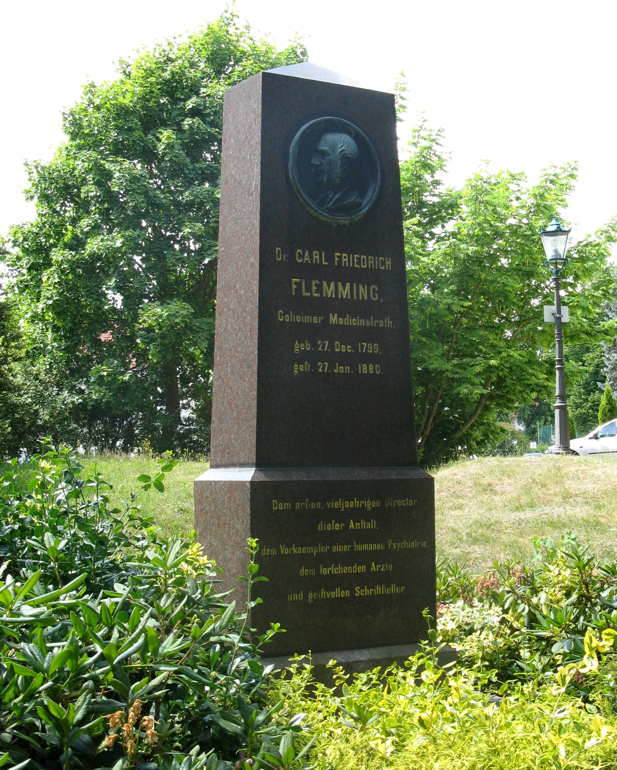 Memorial for Carl Friedrich Flemming in the park Sachsenberg of the Flemming clinic in Schwerin, Germany